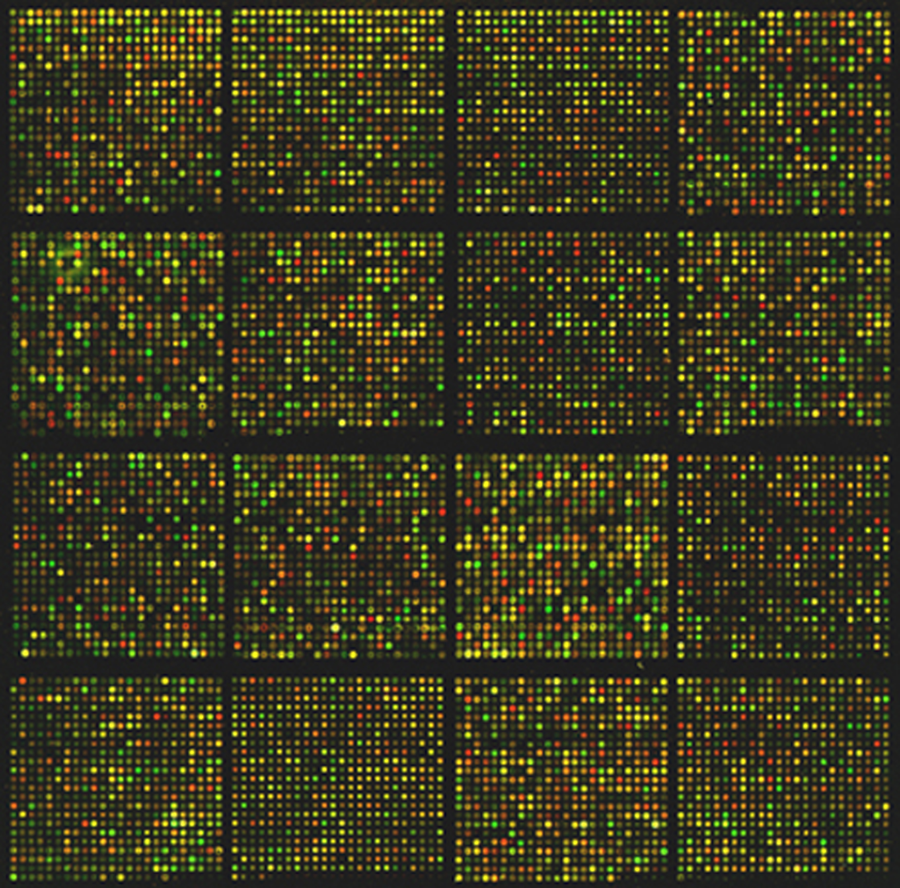 Title Mouse cDNA Microarray Description A mouse cDNA microarray containing approximately 8,700 gene sequences (derived from the Incyte GEM1 clone set). The microarray reflects the gene expression differences between two different mouse tissues. Topics/Categories Cells or Tissue -- Normal Cells or Tissue Locations -- NIH Science and Technology -- Laboratory Techniques/Equipment Type Color, Photo Source National Cancer Institute